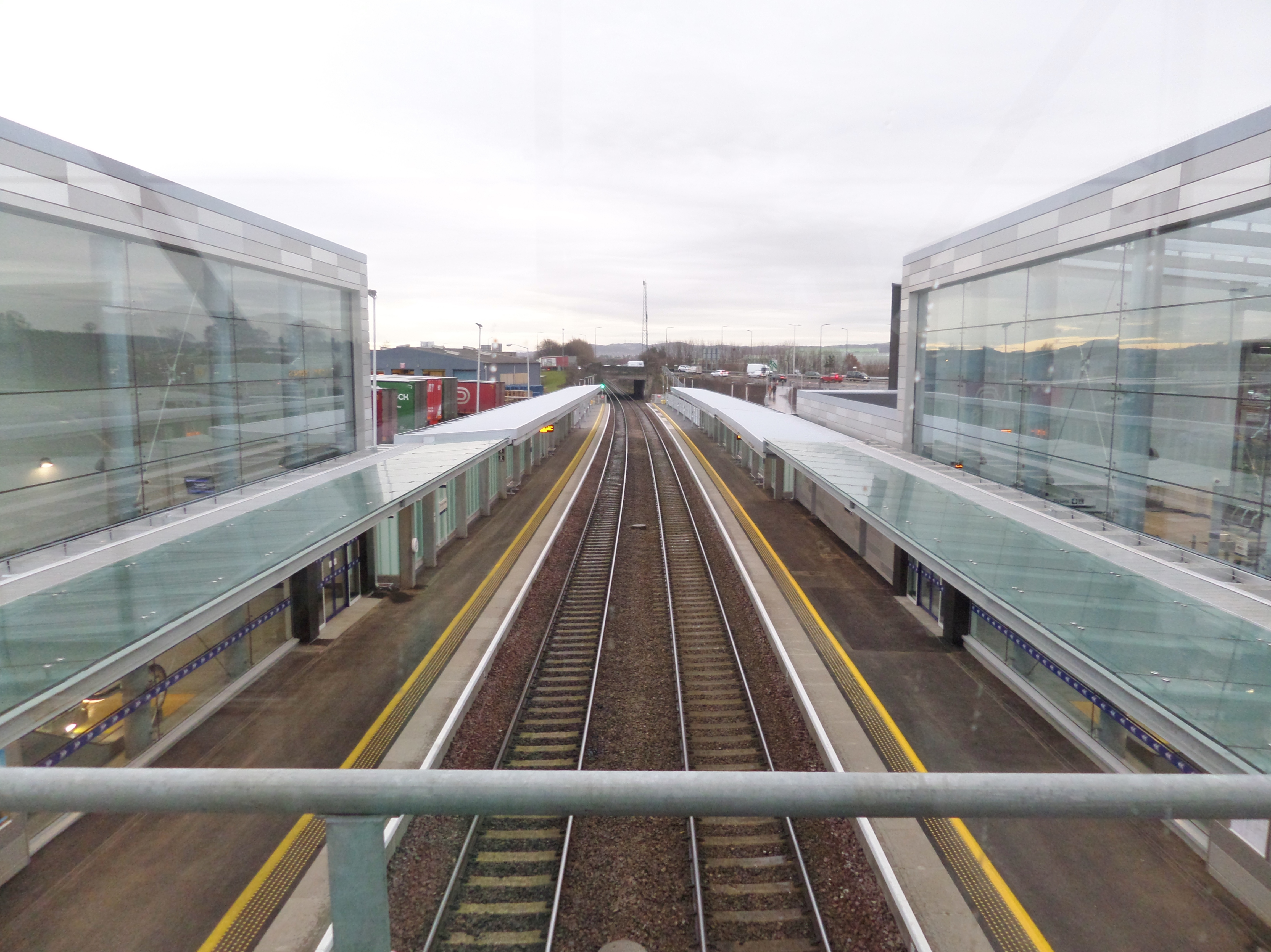 Edinburgh Gateway Station, view south from the pedestrian overbridge. Scotland.